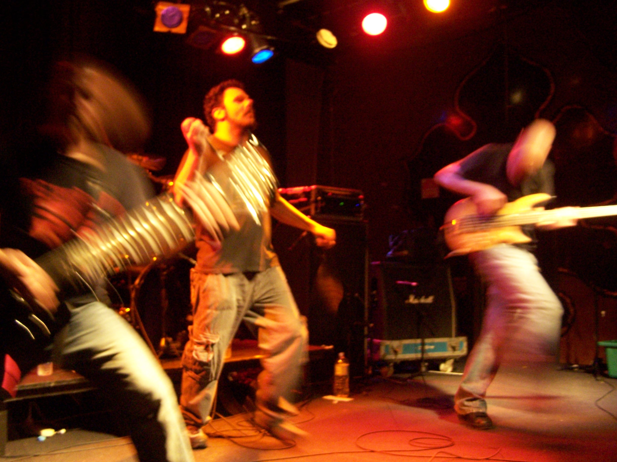 Fivestarprisoncell